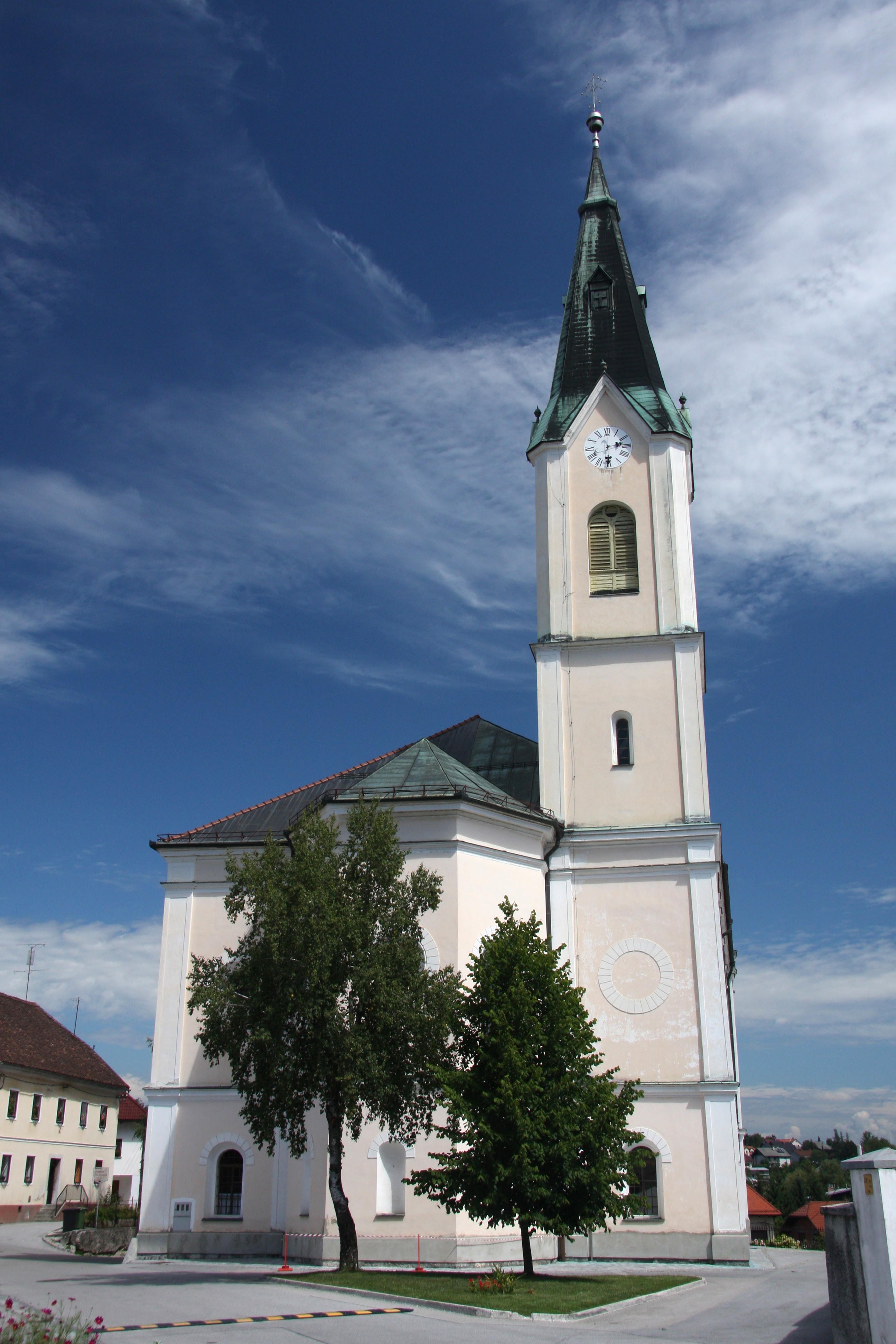 Parish church of the conversion of Paul the Apostle, Vrhnika, Slovenia. Built in 1851.